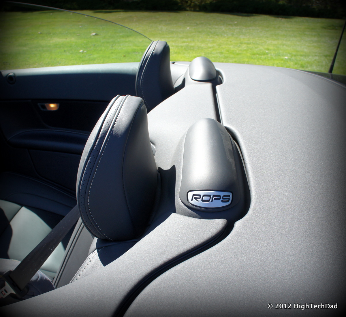 Photos from a 7-day test drive of the Volvo C70 convertible. More information can be found at